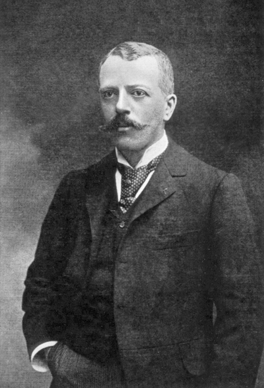 Chauffard, Anatole Marie Emile 1855-1932